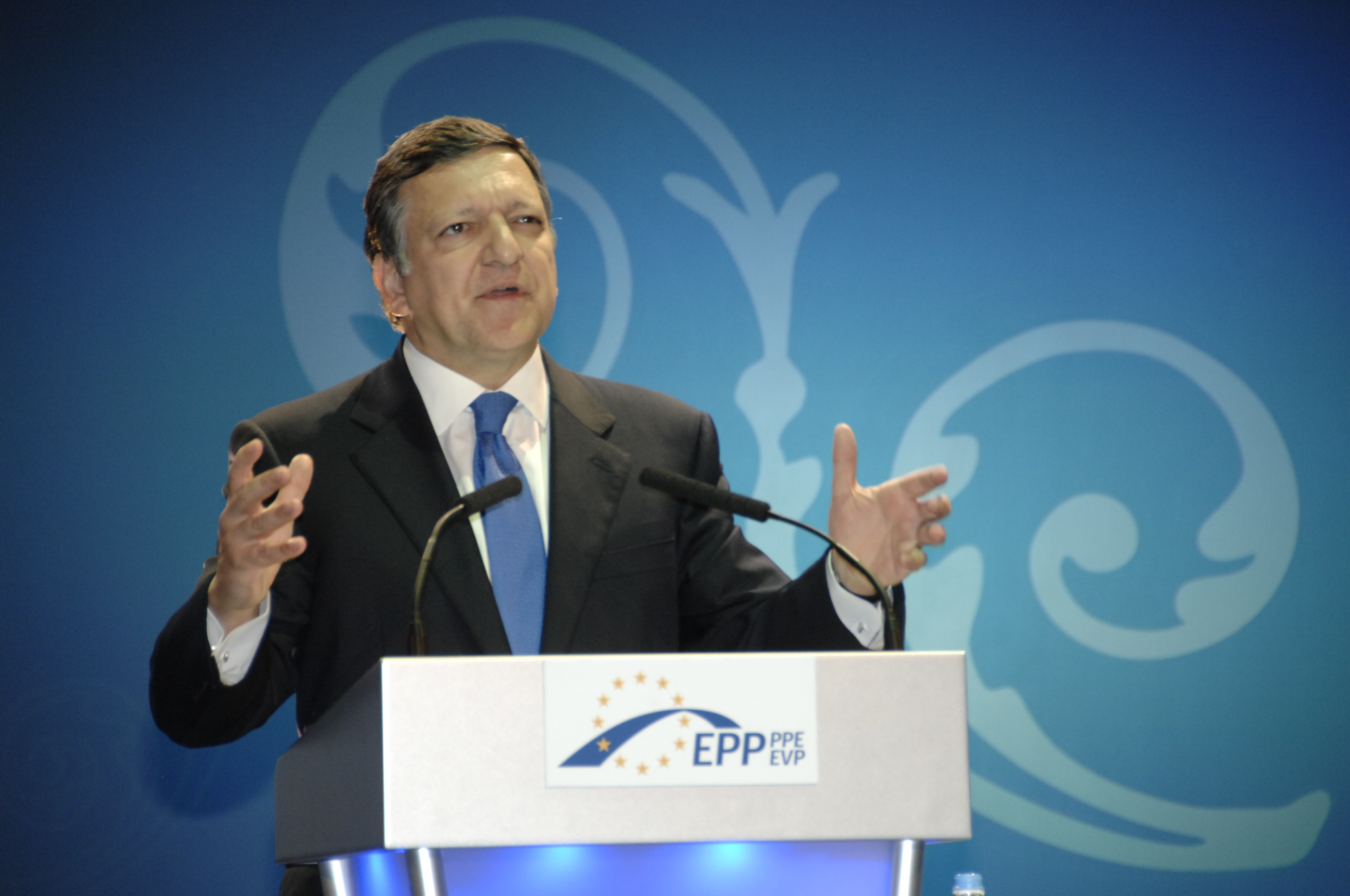 EPP Congress Warsaw